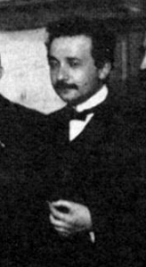 Albert Einstein cropped from photograph of participants of the first Solvay Conference, in 1911. See File:1911 Solvay conference.jpg for the full image.